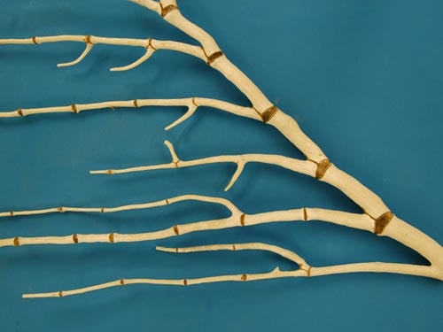 Isidella sp. is distinguished by its branching morphology. This bamboo coral branches at the gorgonin internodes, as opposed to other species of bamboo coral, which branch at the calcareous internode. Image courtesy of Peter Etnoyer